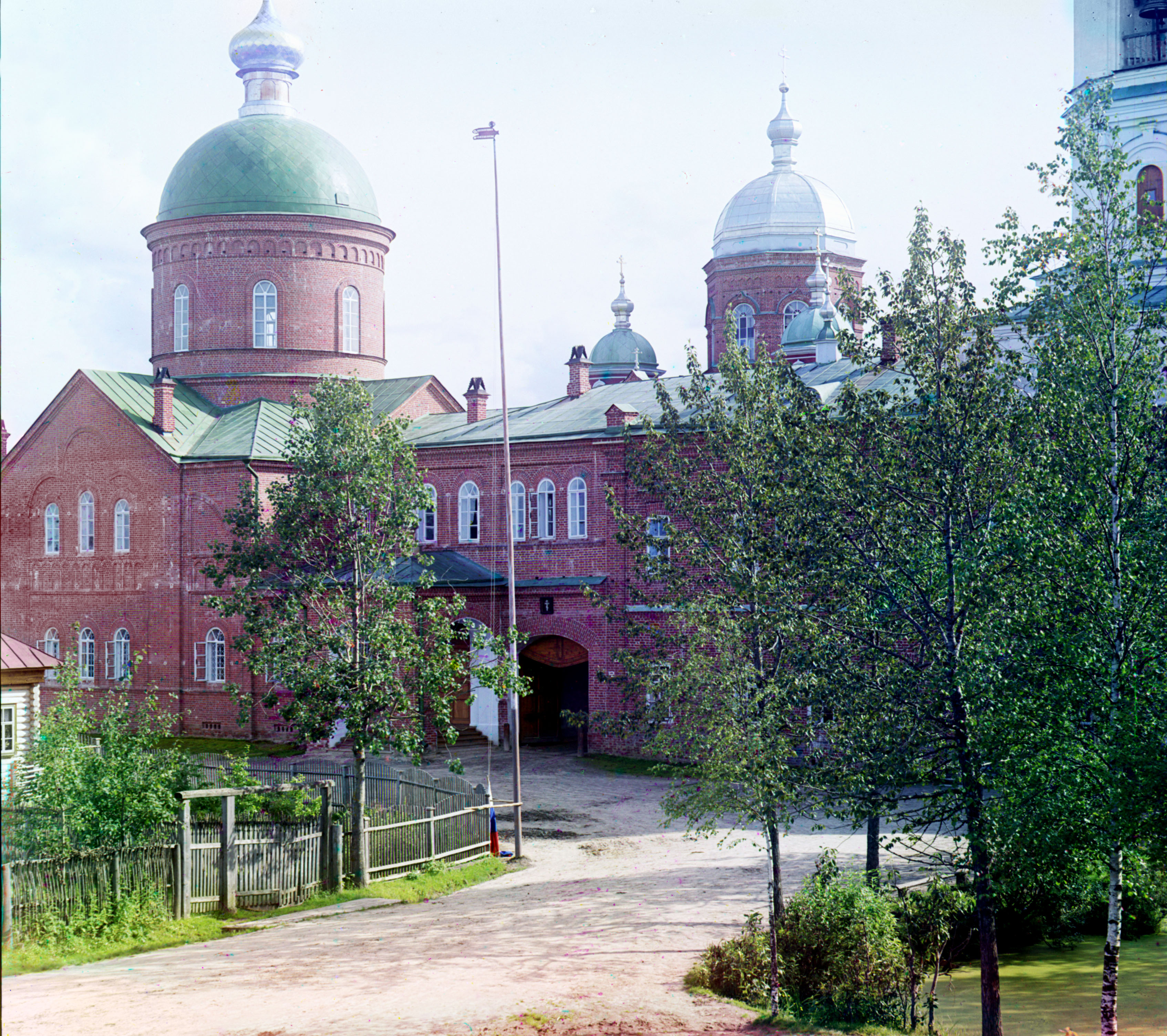 Trinity Cathedral in the Leushinskii Monastery. (Leushina, Russian Empire)